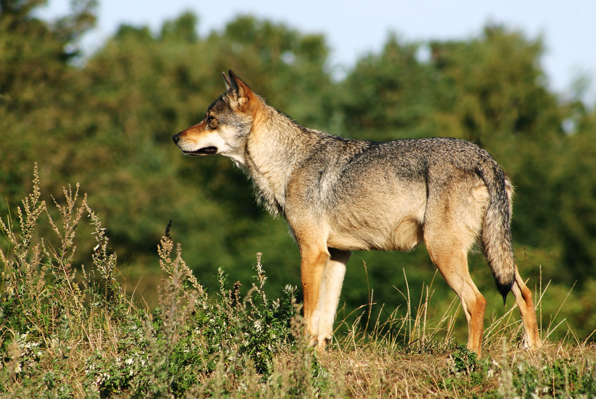 Scandinavian grey wulf (Canis lupus) at Skandinavisk Dyrepark, Djursland, Denmark.